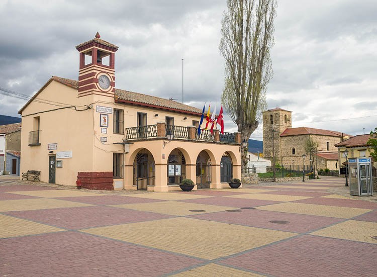 Ayuntamiento de Pueblo de Pinilla del Valle. Al fondo la iglesia de San Miguel Arcángel.